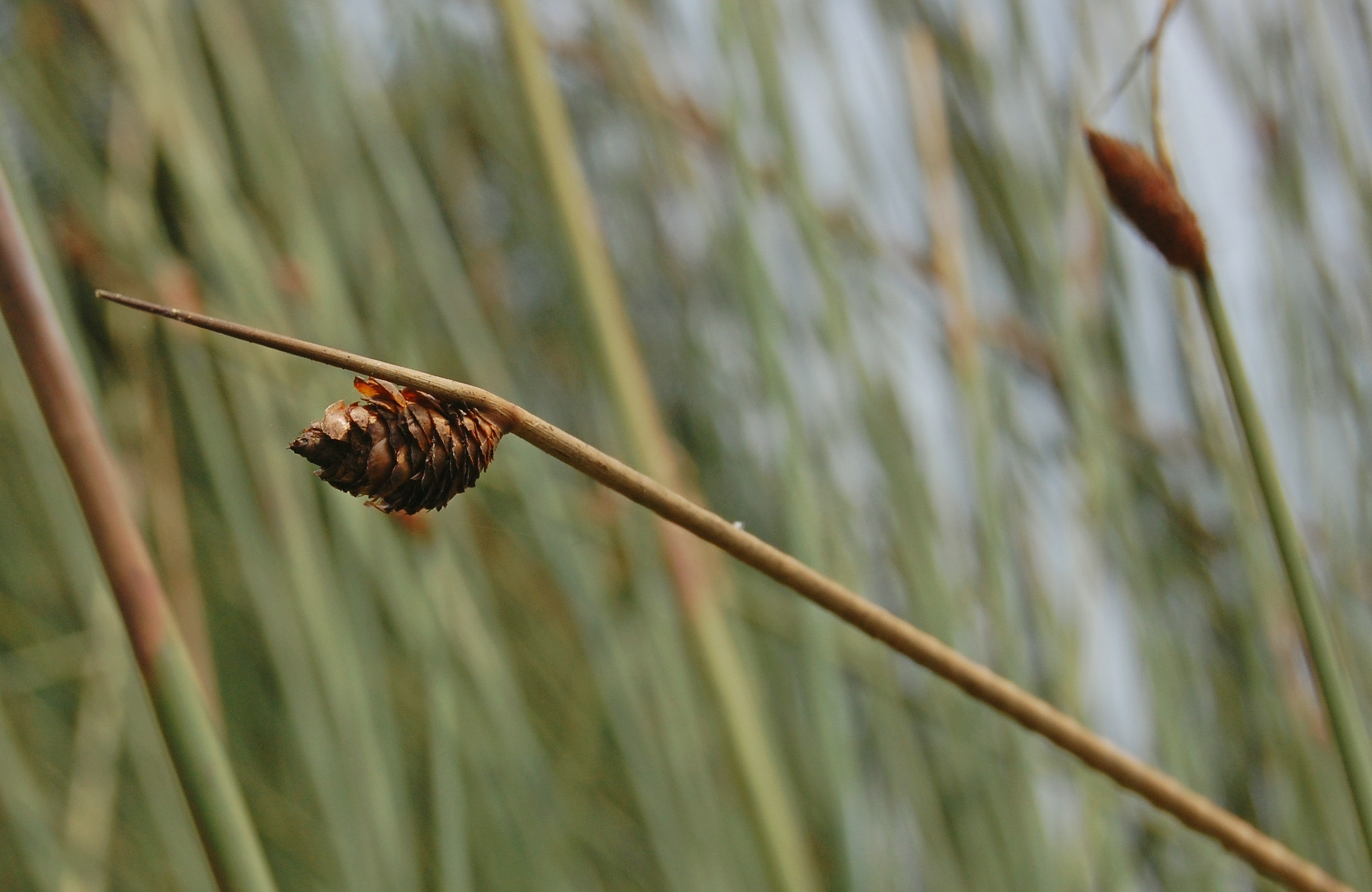 Lepironia articulata at freshwater marsh next to an oil-palm plantation, near Pangkalan Bun, Central Kalimantan, Indonesia. Showing spikelet.